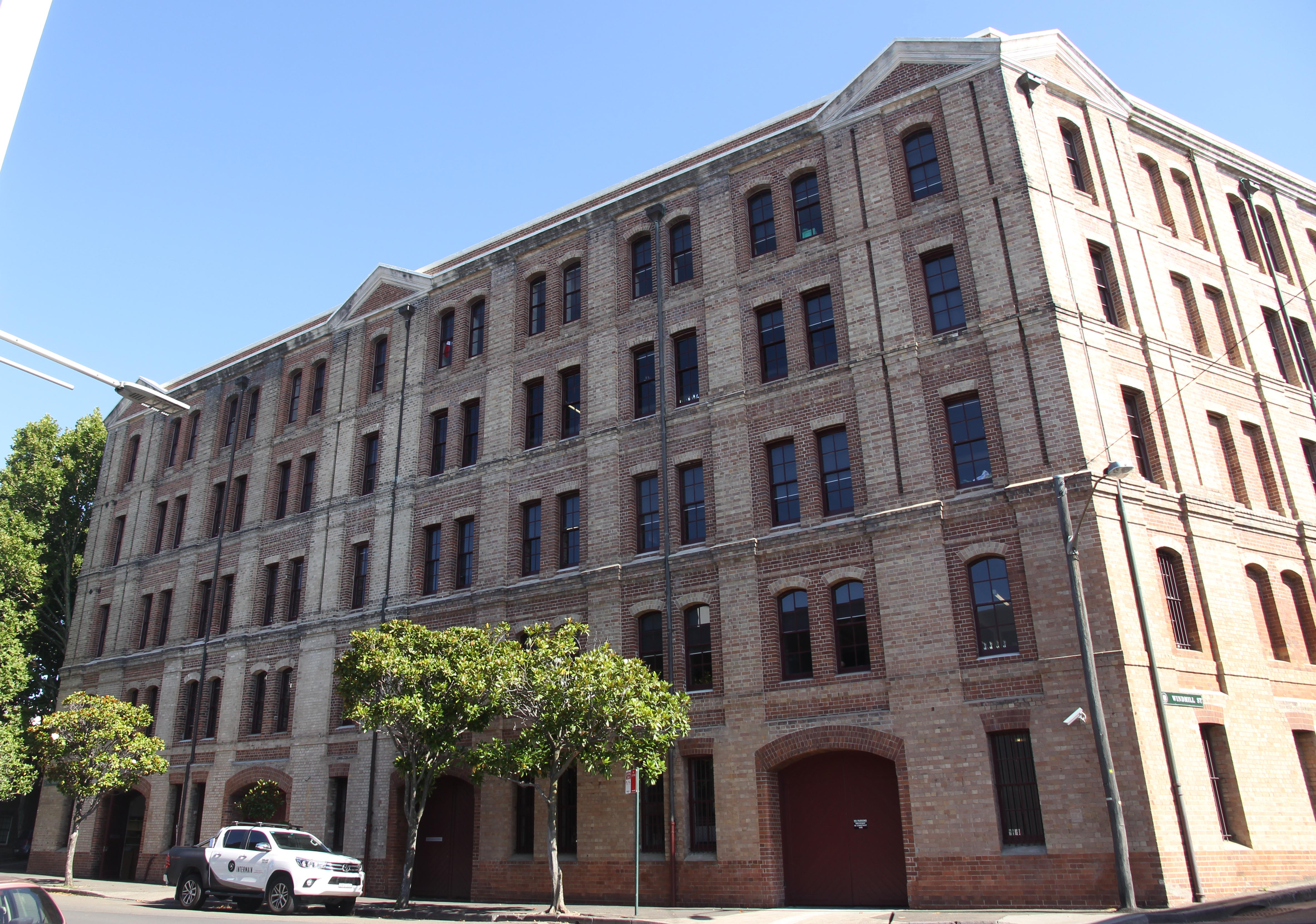 Oswald Bond Store, 1-17 Kent Street, Millers Point, in the City of Sydney, New South Wales, Australia; as viewed from Windmill Street.